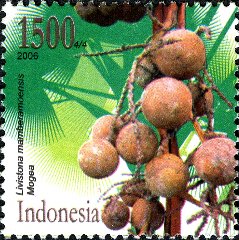 Stamps of Indonesia